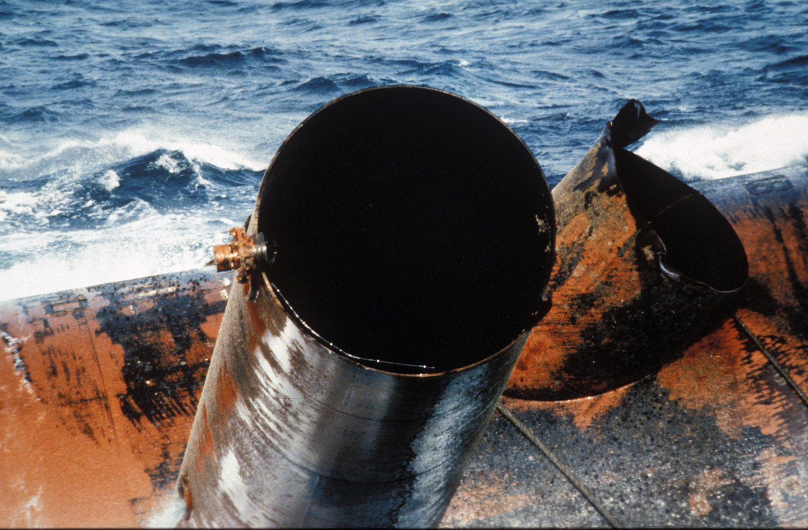 Alexander L. Kielland, Column D in the water, Details of fracture at the hydrophone